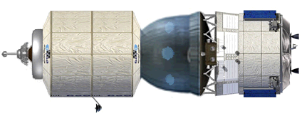 Possible design for the CSTS EuroSoyuz vehicle